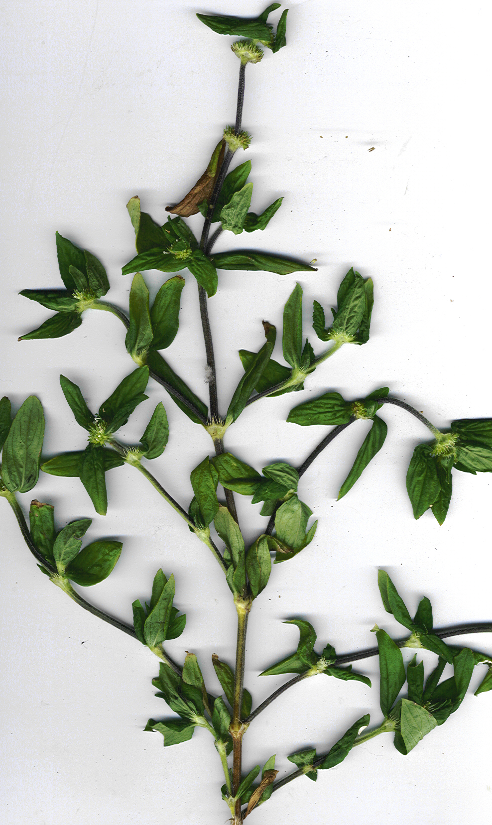 Mitracarpus hirtus (plant). Location: Maui, Hawelewele gulch